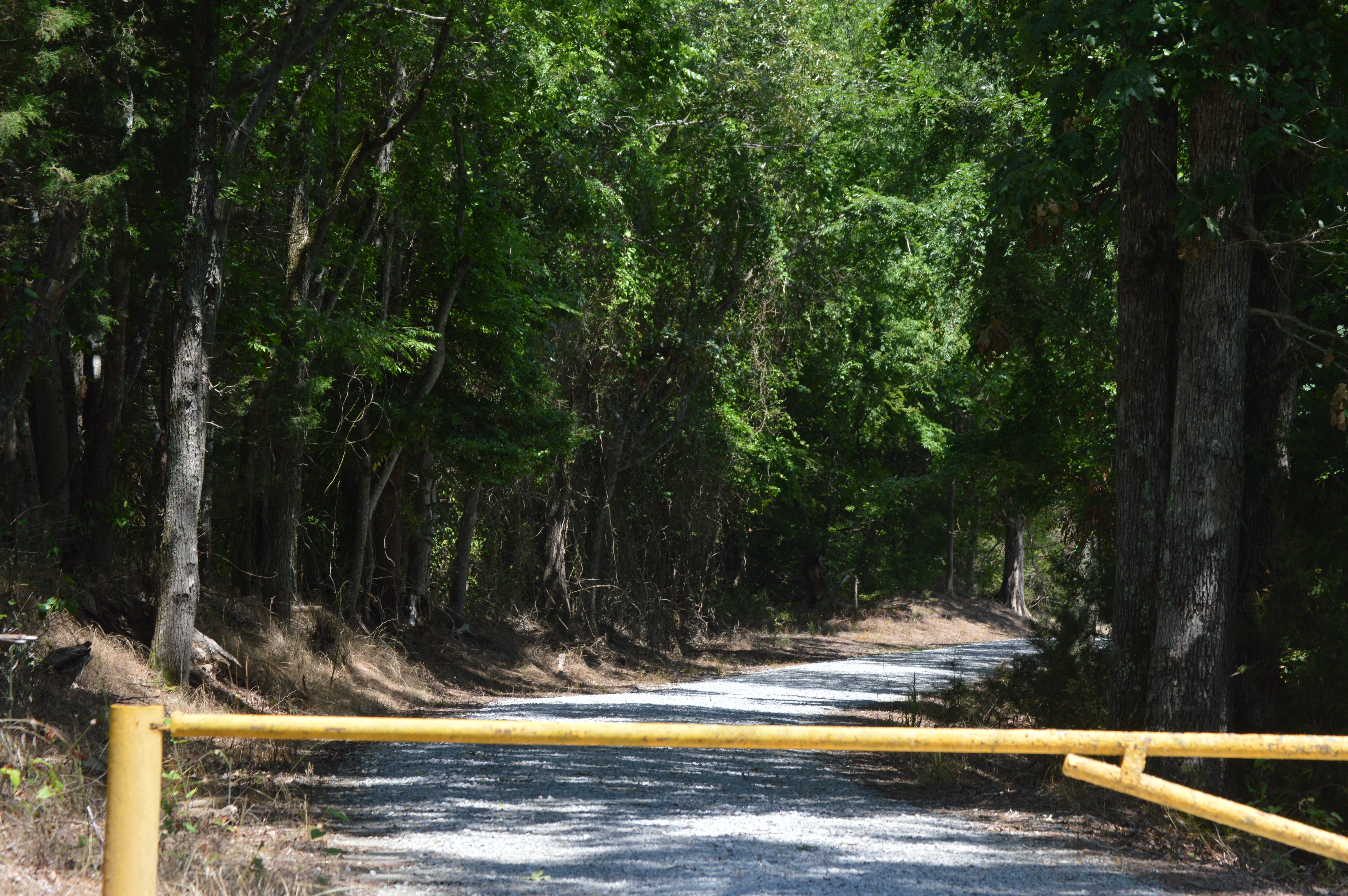 Entrance to the Elm Hill farmstead, located at the Dick Cross Wildlife Management Area in Mecklenburg County, Virginia, United States. The gate is closed because the property has been destroyed by fire, but the place's National Register of Historic Places designation has not yet been removed.